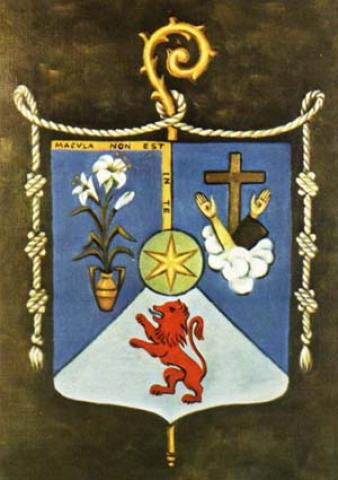 Emblem of the Order of the Immaculate Conception, from a 18th century painting